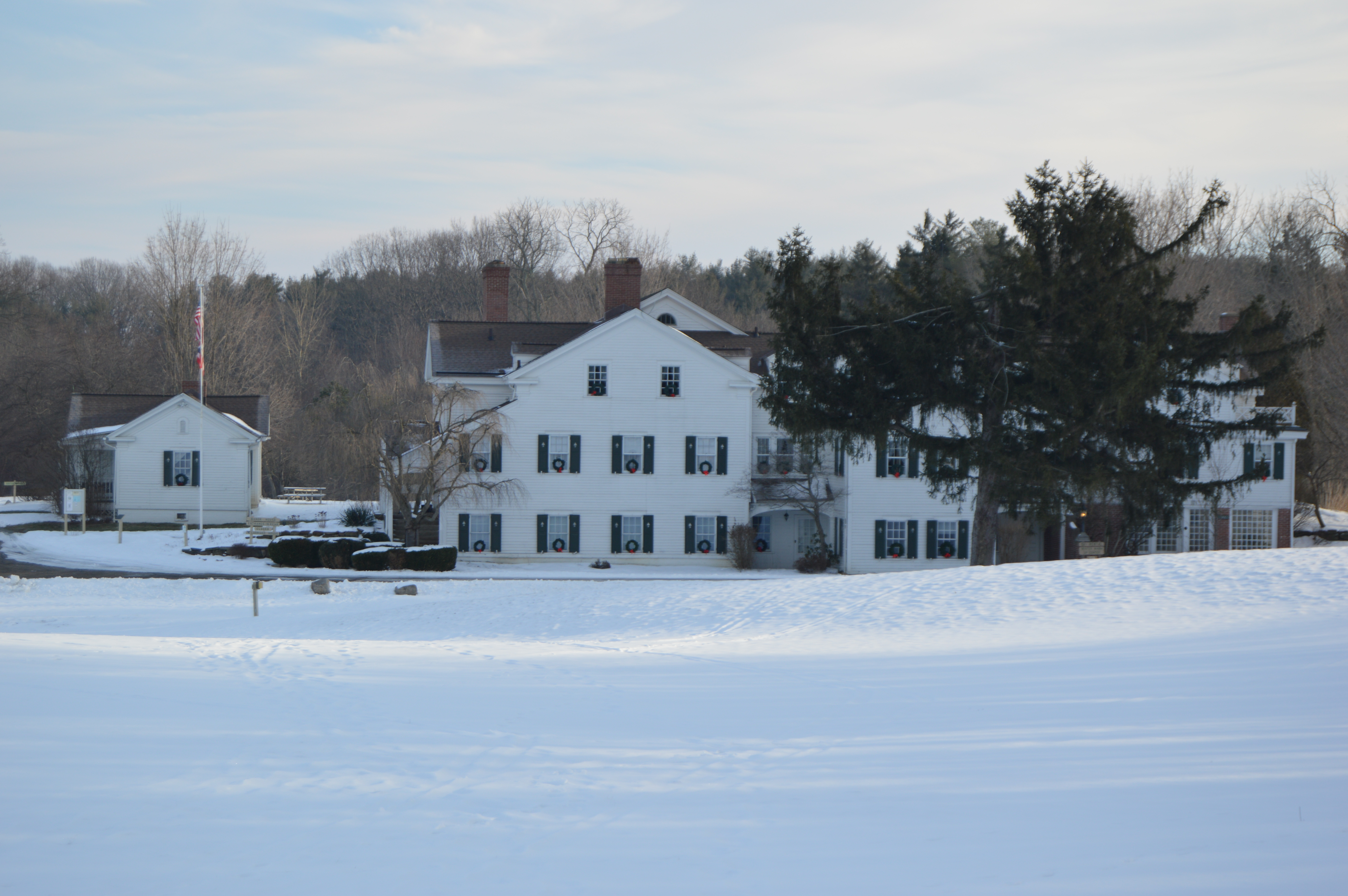 View from the west of the Harry Bartlett Stewart Property, located at the center of Quail Hollow State Park northeast of Hartville in Lake Township, Stark County, Ohio, United States. Built in 1929, it is listed on the National Register of Historic Places.